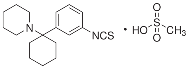 Structure of metaphit methanesulfonate